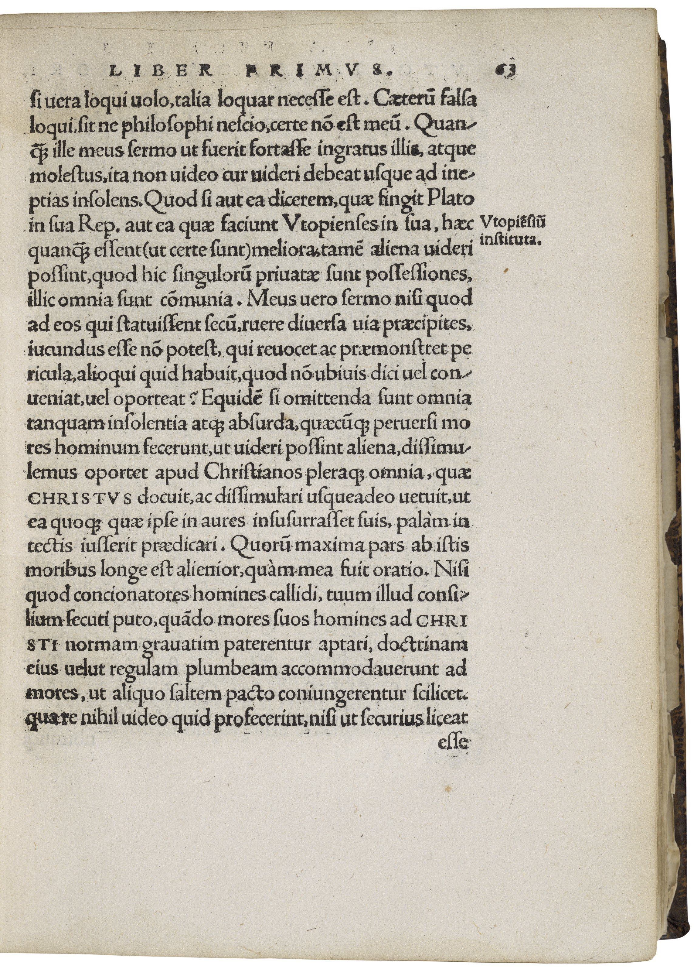 This is the page 63 of Thomas More's Utopia (november 1518)